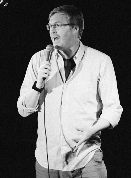 American comedian Kurt Braunohler at Not Safe For Work Presented by Comedy Central Produced by CleftClips Photography by Mandee Johnson / The Del Monte Speakeasy at Townhouse Venice - Los Angeles, CA May 7, 2013